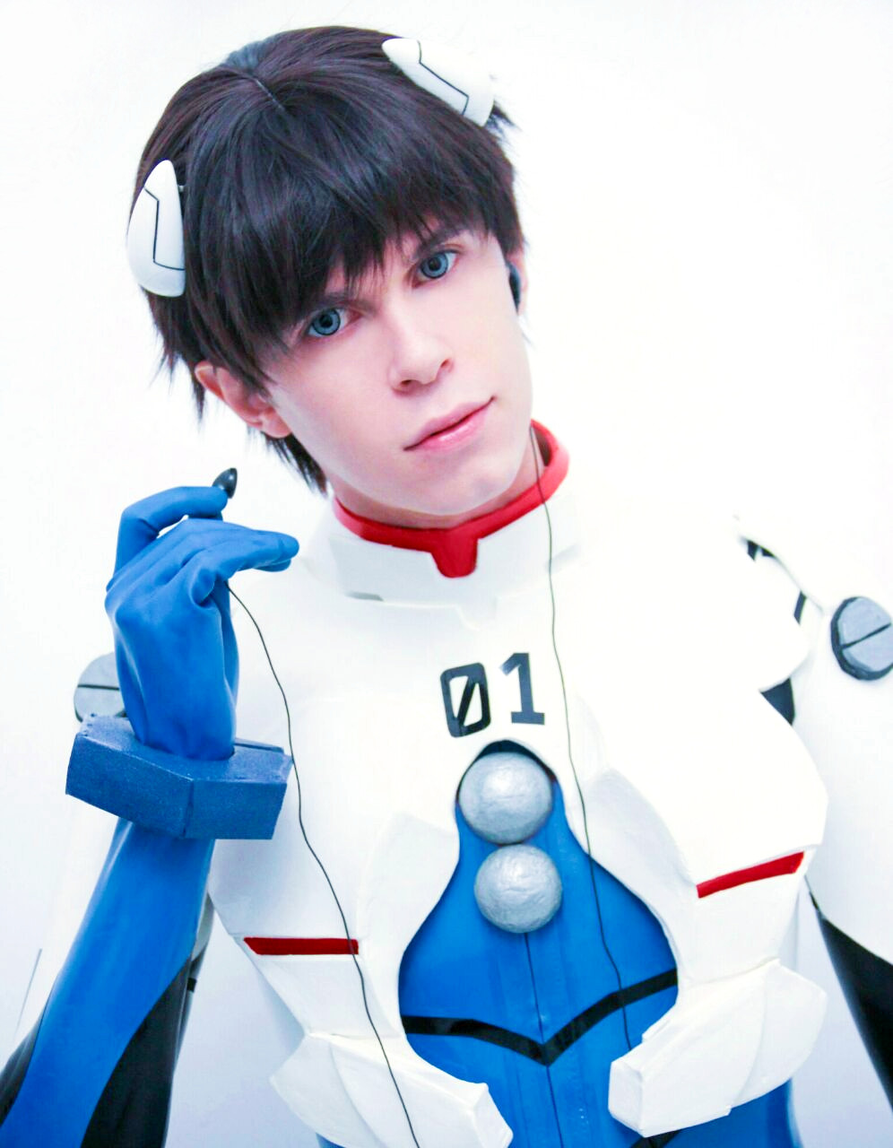 A cosplay portraying Shinji Ikari from Neon Genesis Evangelion with the plugsuit. In photo: JDrake. Picture take by Adami Langley, uploaded with their explicit consent.